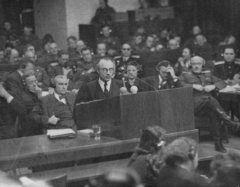 Defense counsellor Dr. Alfred Seidl, the counsel for Hans Frank and the second counsel for Rudolf Hess, presents an argument at the International Military Tribunal trial of war criminals at Nuremberg.